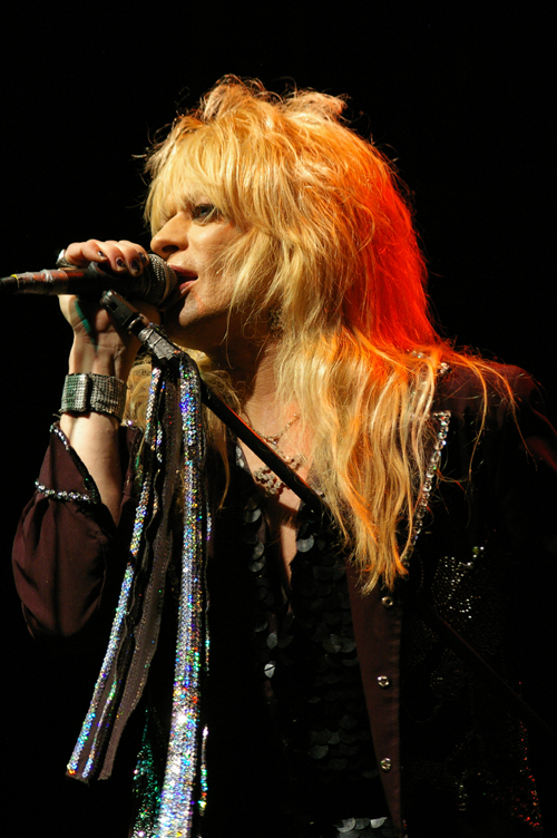 Michael Monroe performing with Hanoi Rocks in England, 4th March, 2008